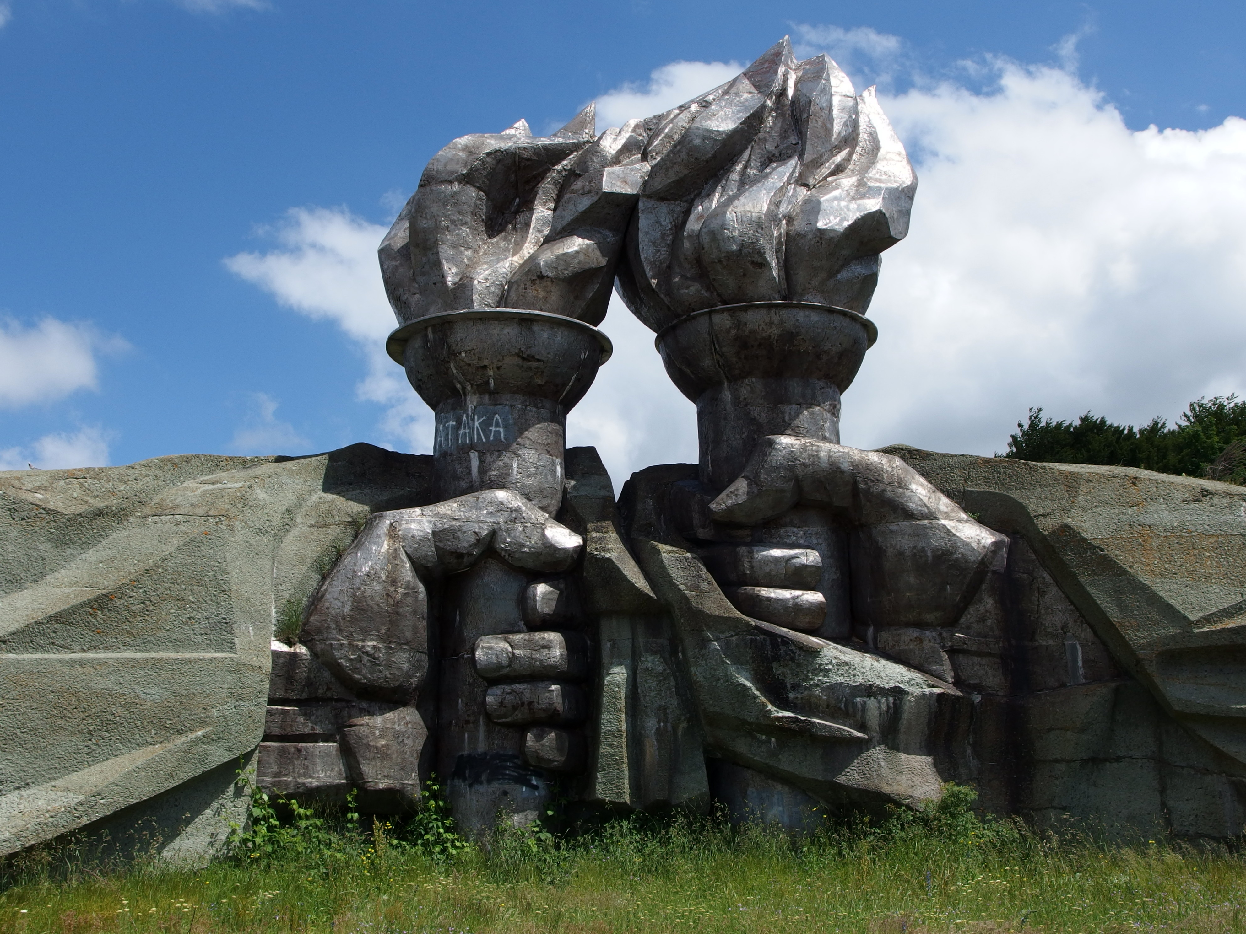 2014-06-22 at Buzludzha.